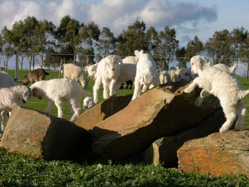 cashmer kids playong